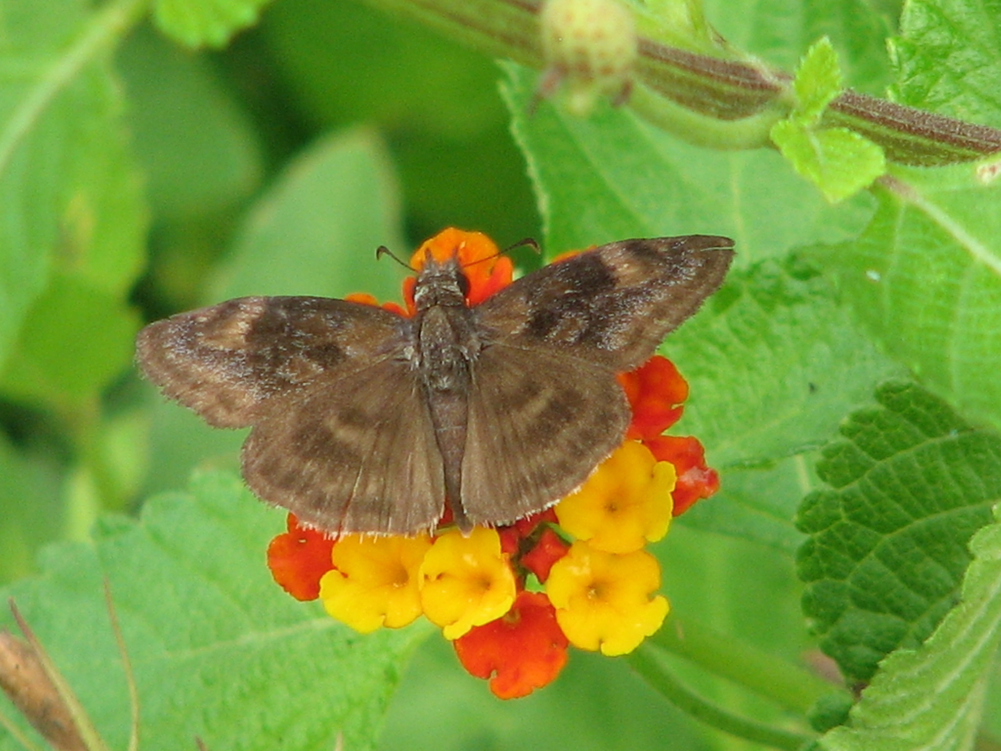 False Duskywing (Gesta invisus). Species of insect.